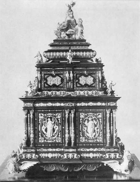 Photograph